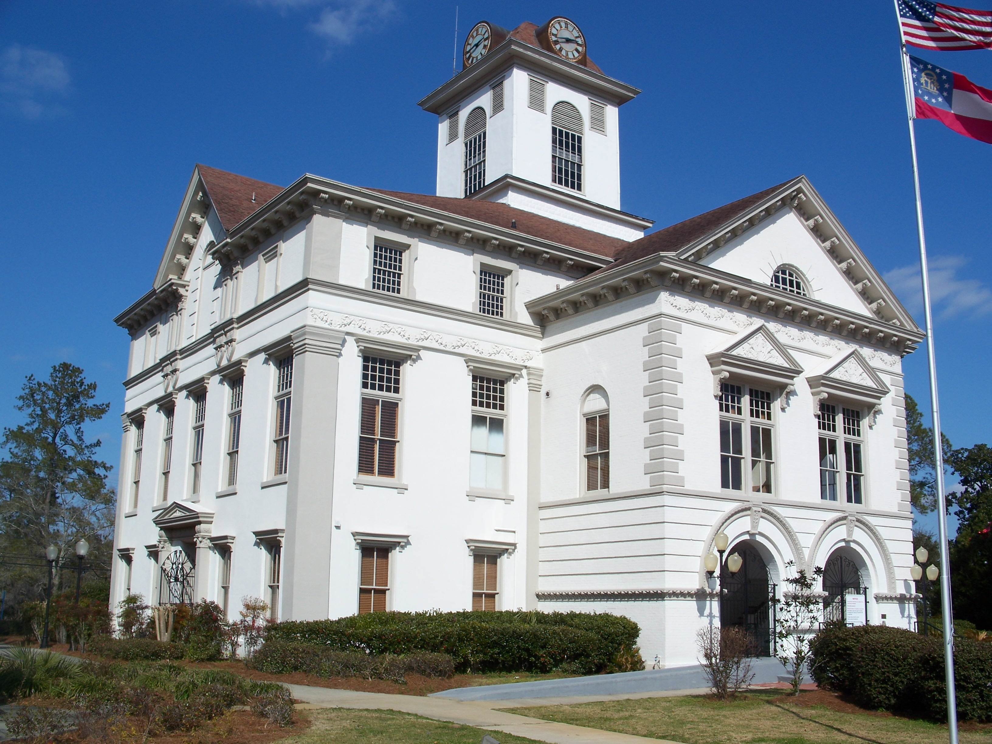 Quitman, Georgia: Brooks County Courthouse